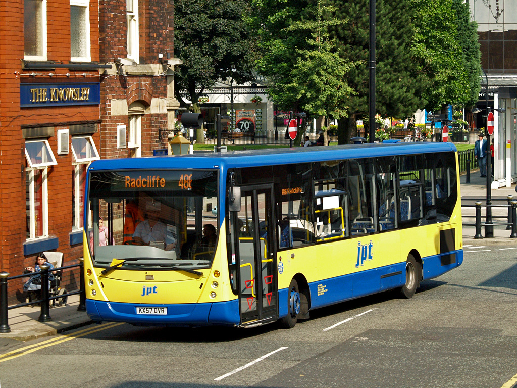 JP Executive Travel KX57 OVR, a MAN 18.240 built 2007 with a Plaxton ‘Centro’ B38F body on Moss Street, Bury with the 16:30 Bury Interchange to Radcliffe Bus Station via Watling Street, Ainsworth and Turks Road 486 service. Thursday 24th July 2008